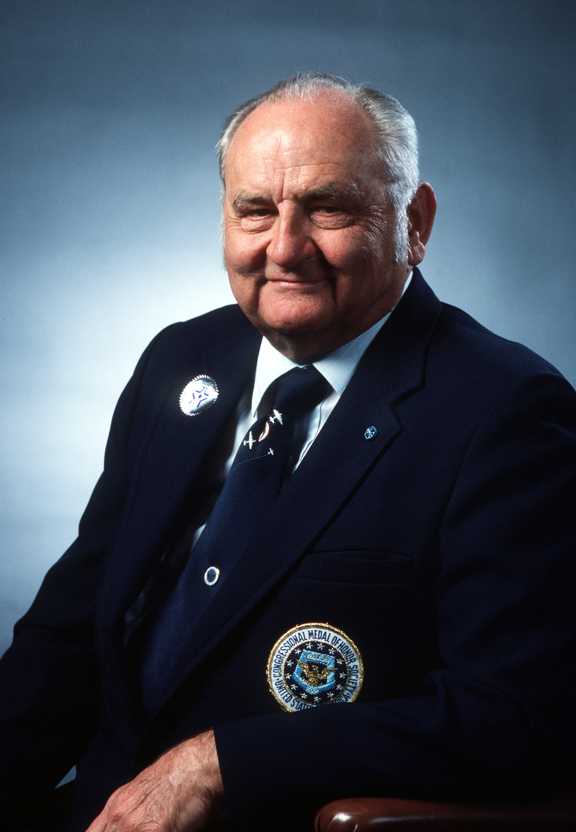 Lieutenant Colonel Edward S. Michael, United States Air Force (Retired), Medal of Honor recipient